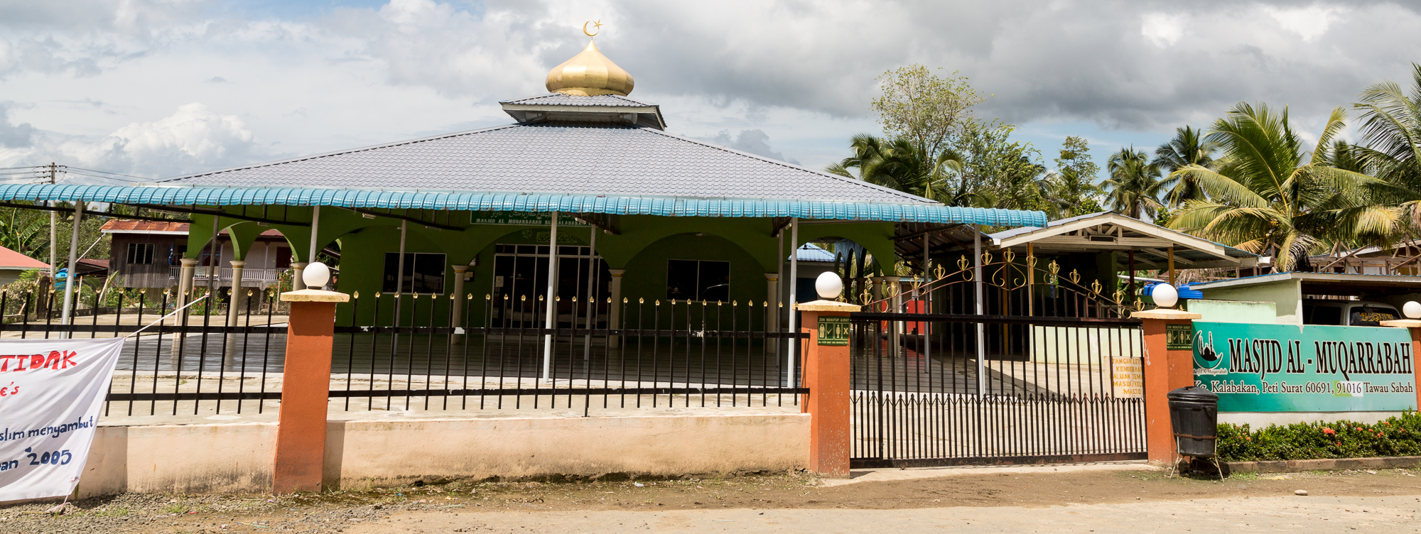 Kalabakan, Sabah: Masjid Al-Muqarrabah in Pekan Kalabakan